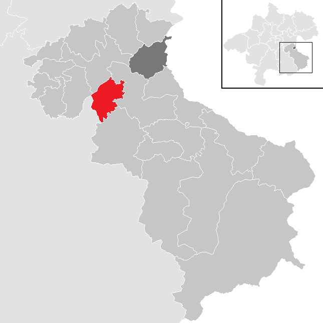 district Steyr-Land